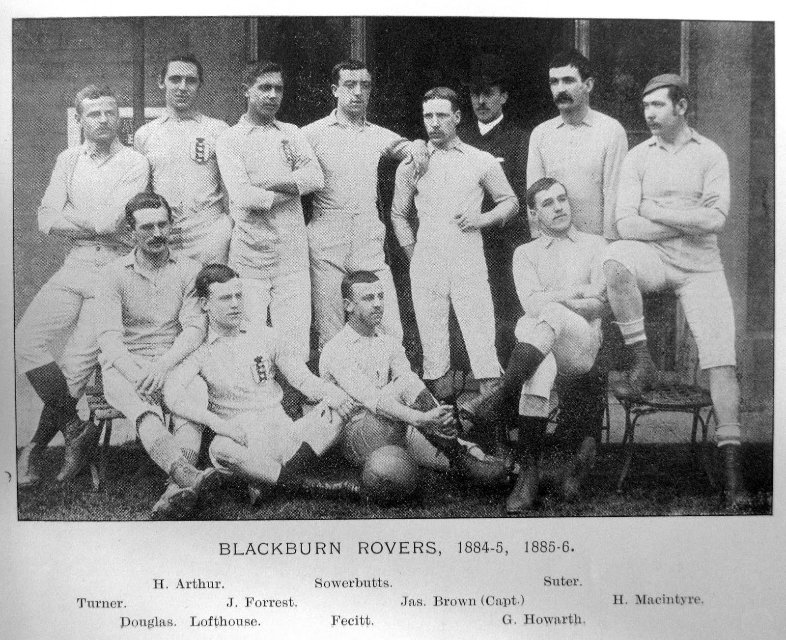 The Blackburn Rovers FC team that won the 1885 FA Cup Final.